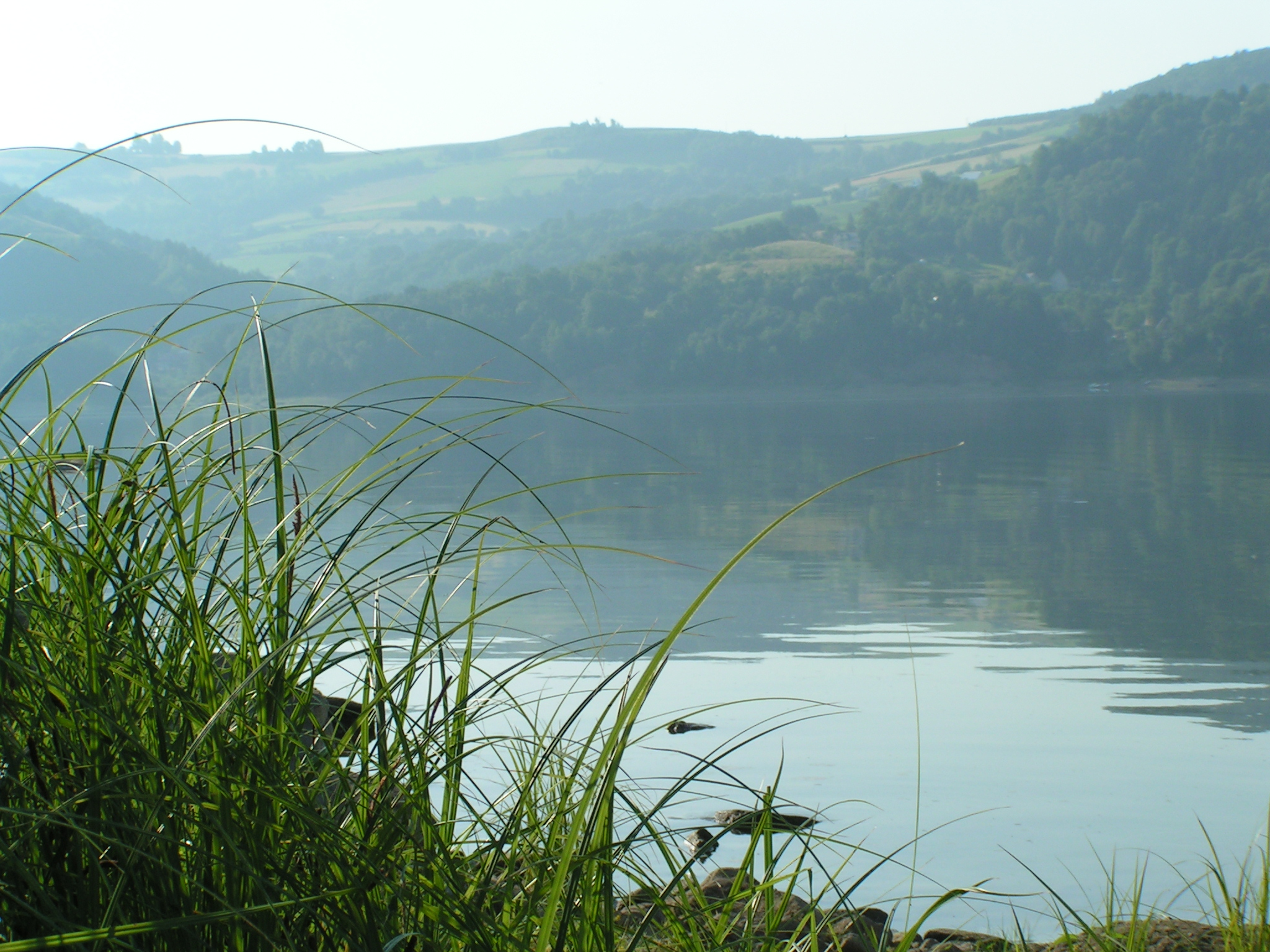 Jezioro o poranku (Lake on early morning)